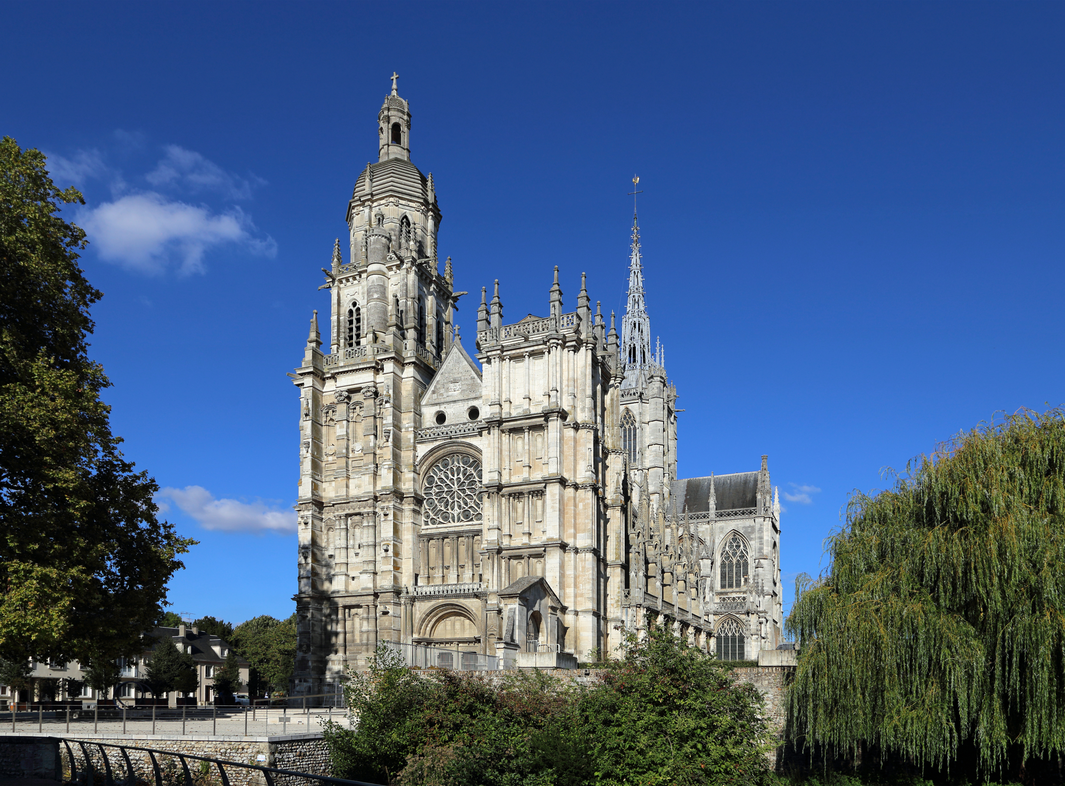 Évreux (Eure department, France): cathedral of Our Lady .